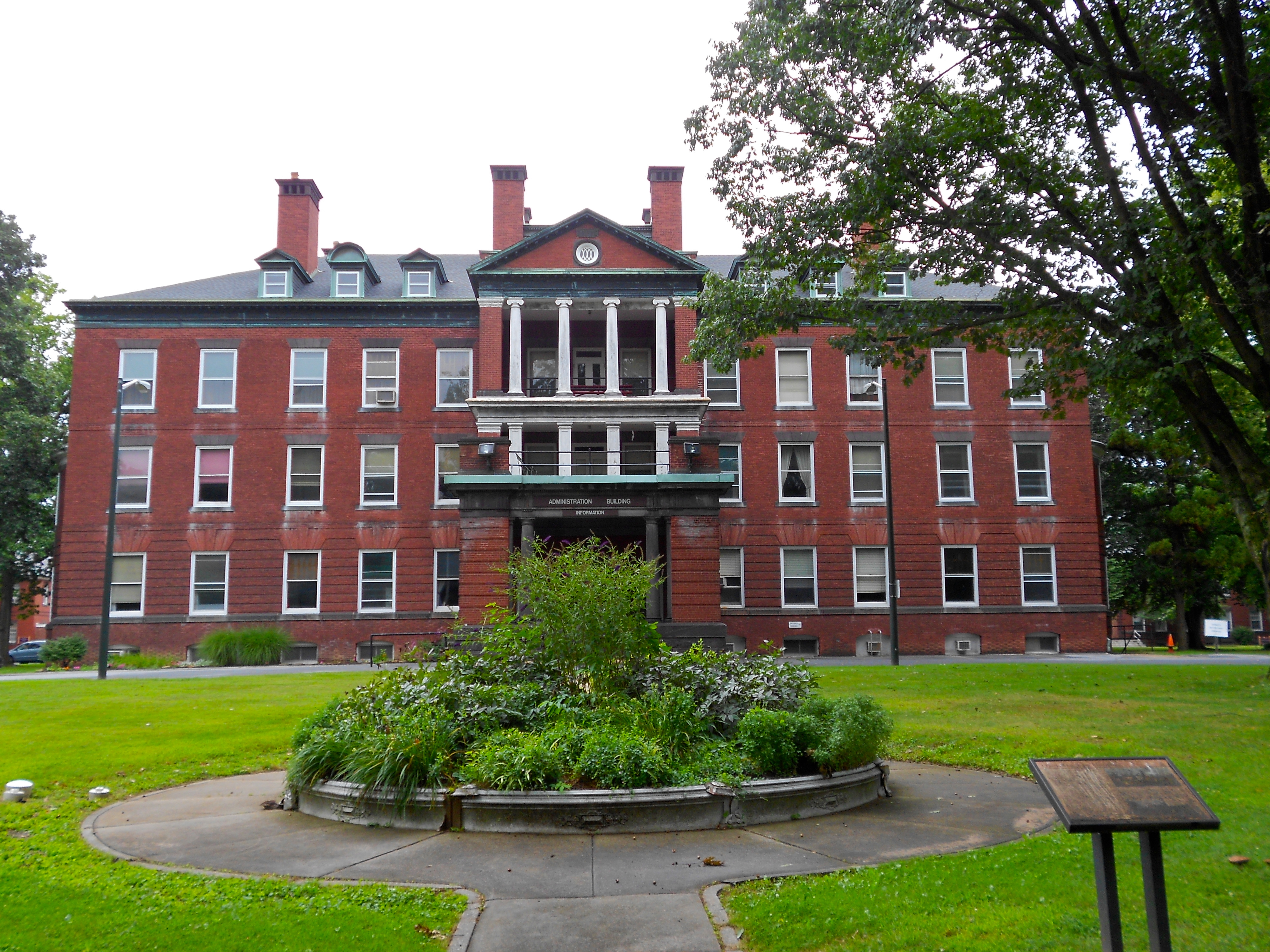 Former Pennsylvania State Lunatic Hospital, listed on the NRHP on January 8, 1986. Located off Cameron Street, Harrisburg, Dauphin County, Pennsylvania. This is the Administration building designed by Addison Hutton 1893